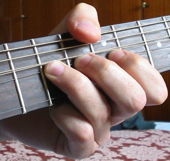 Bending played on acoustic guitar